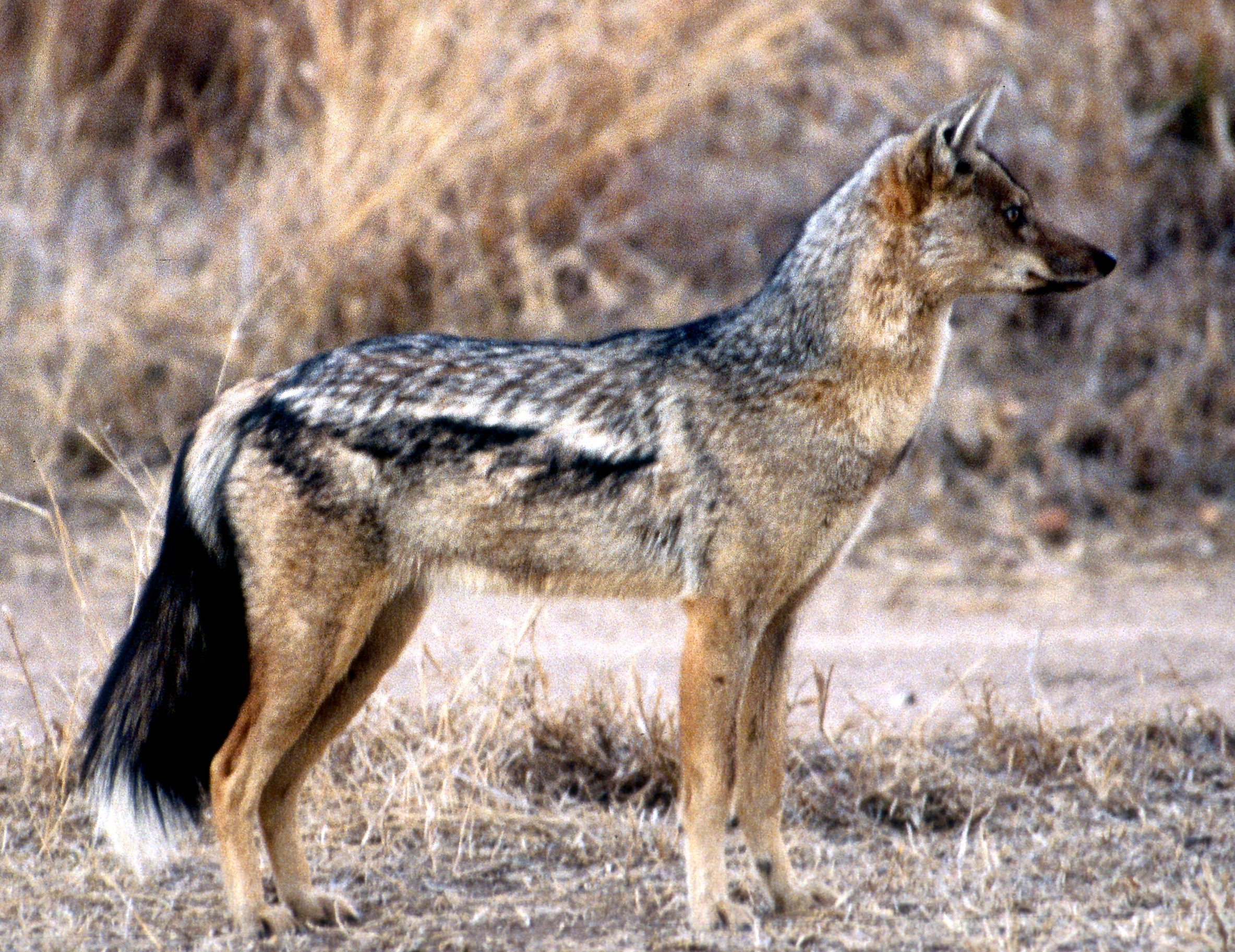 Side-striped Jackal (Canis adustus), Kruger National Park, South Africa